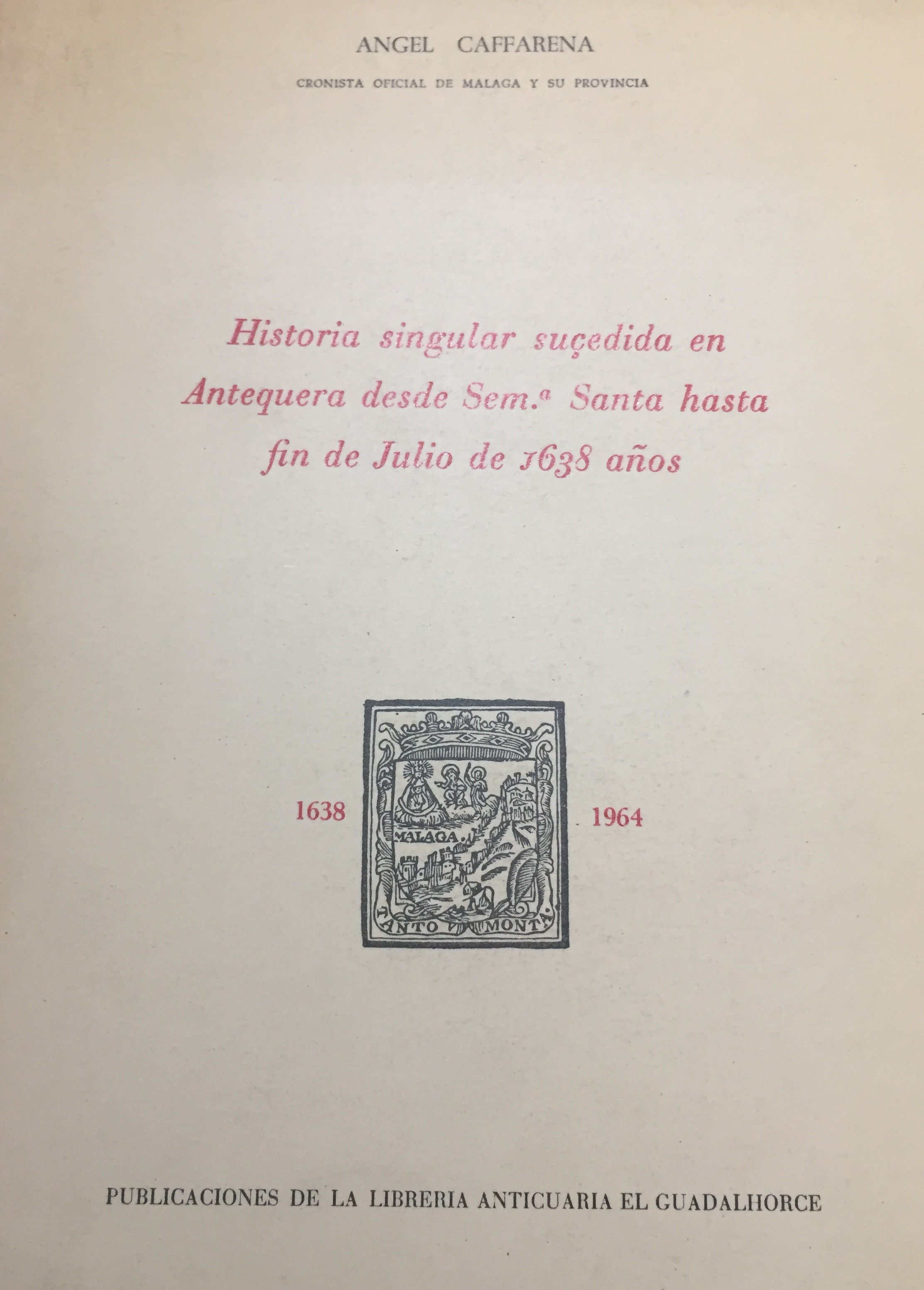 Photograph of the cover of a facsimile book edited and published by Angel Caffarena in 1964